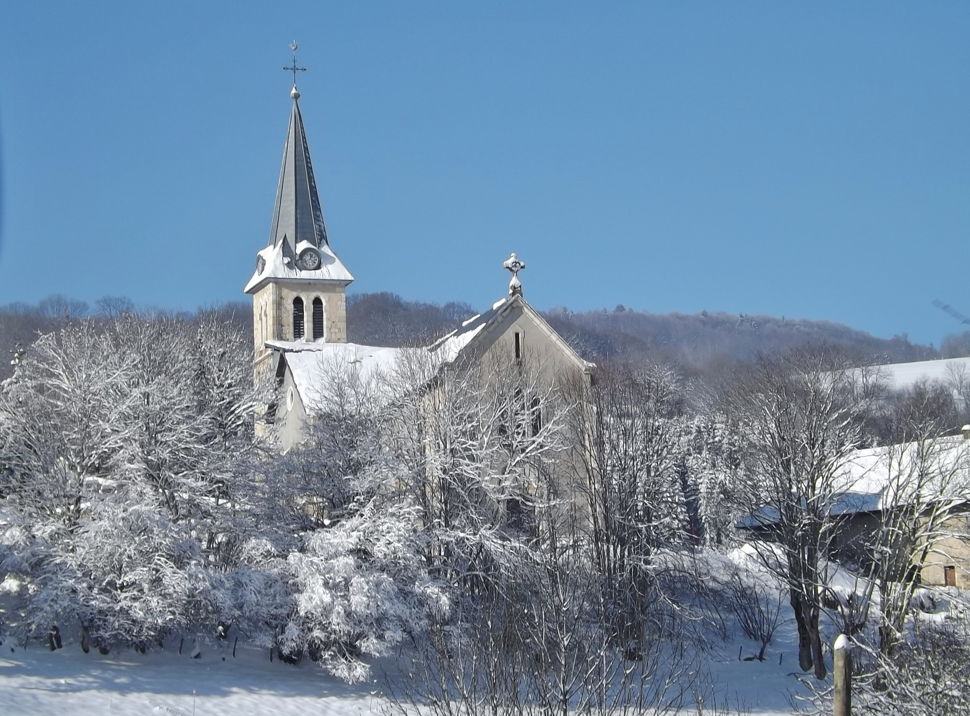 Sight in winter, of the church of Les Déserts, commune of the Bauges mountains near Chambéry, in Savoie.